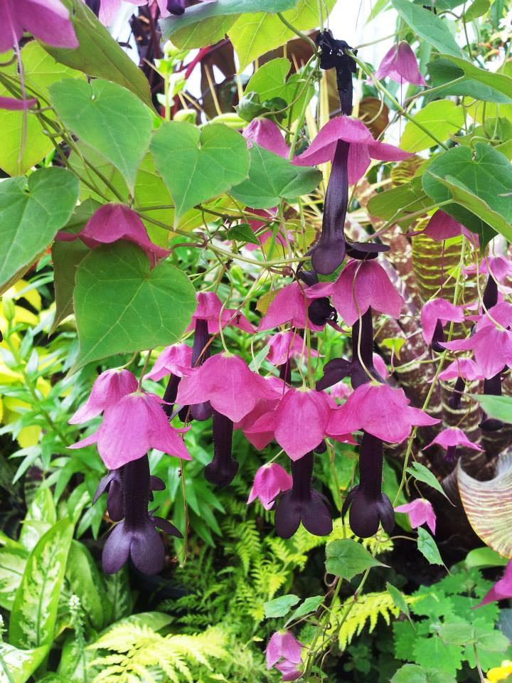 Rhodochiton astrosanguineum flowers